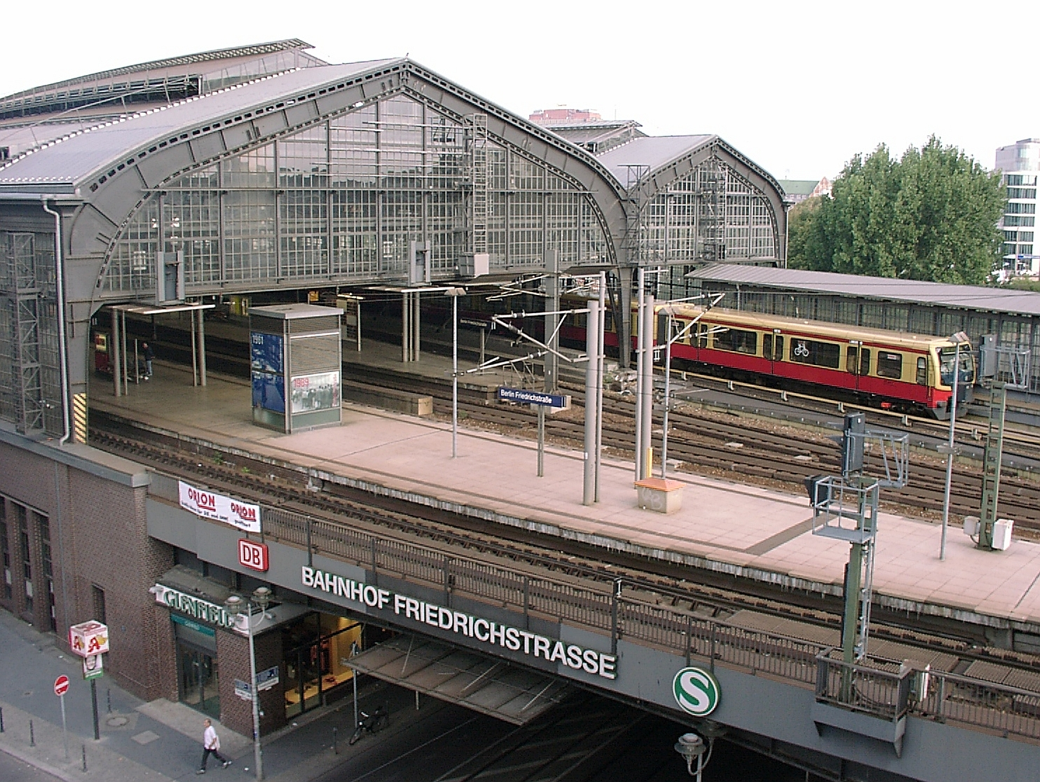 Train station Friedrichstraße in Berlin, Germany